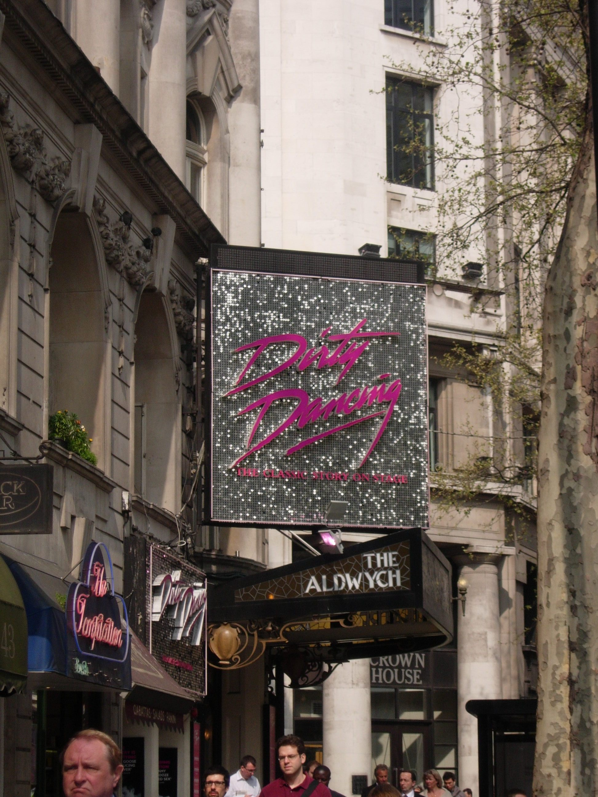 The Aldwych Theatre in April 2007, currently showing Dirty Dancing.